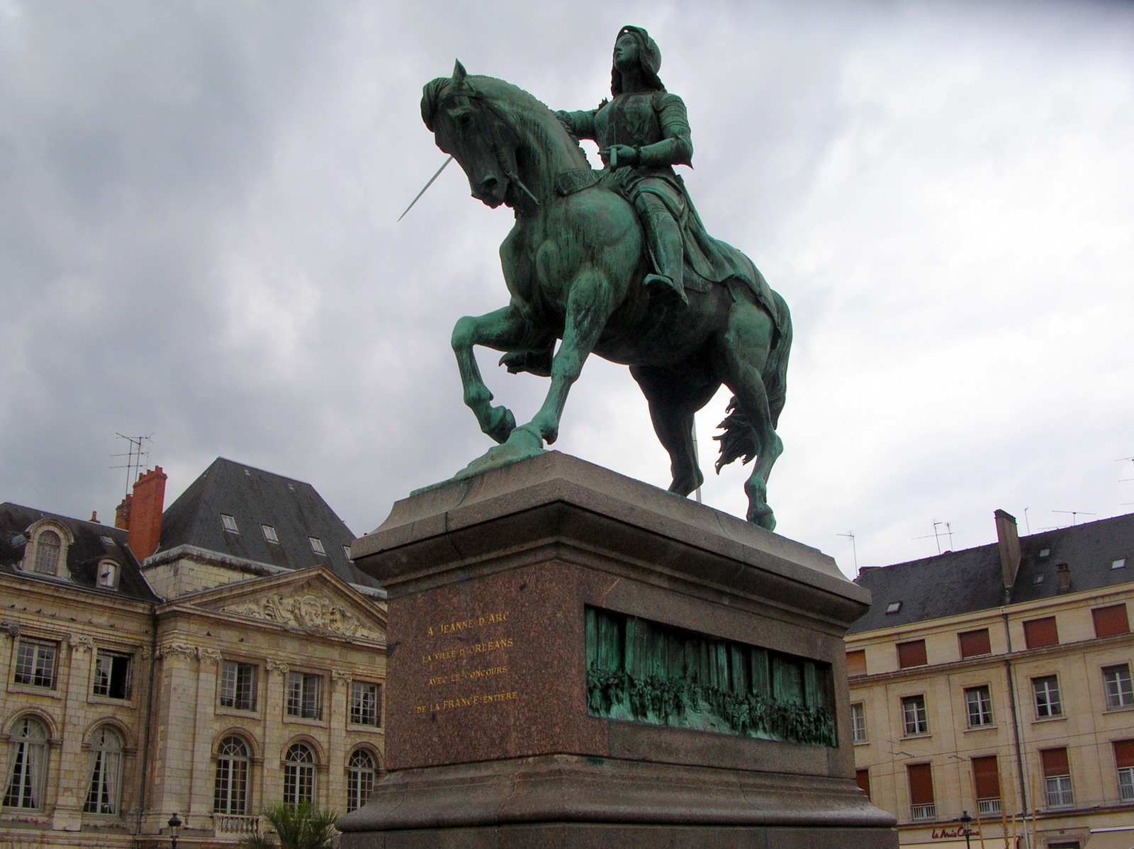 Orleans